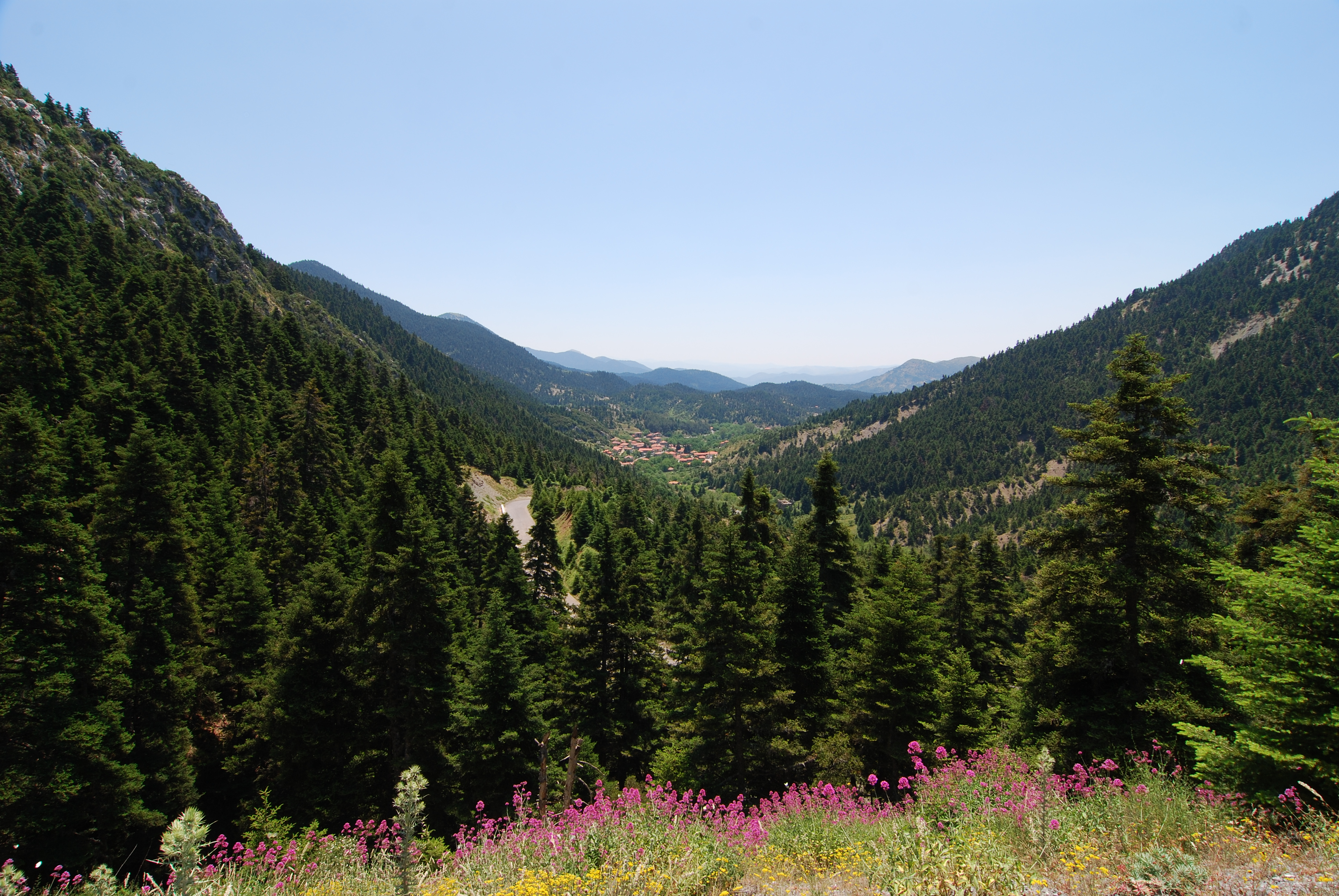 This is a photography of Natura 2000 protected area with ID GR2520001